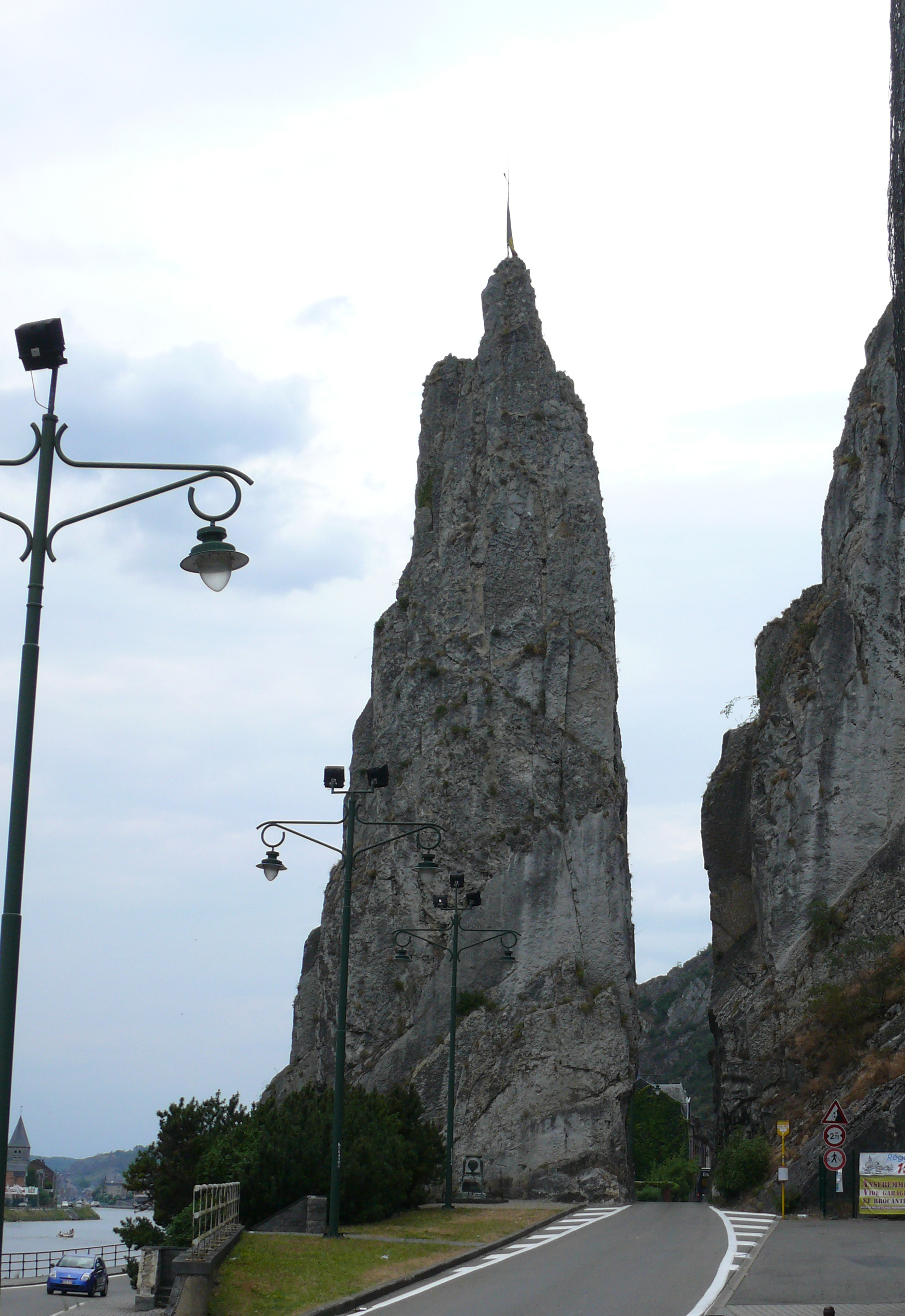 The Rocher Bayard in Dinant seen from the Anseremme side.